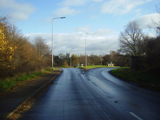 Site of Redenhall Railway Station This station closed on the 1st August 1866 after 5 years in service, after that it guarded the crossing here. The building survived until the roundabout was built. Here we are looking towards Redenhall (you can see the church) the station would have been to the right or directing in front of me with the road over the line going into the village.